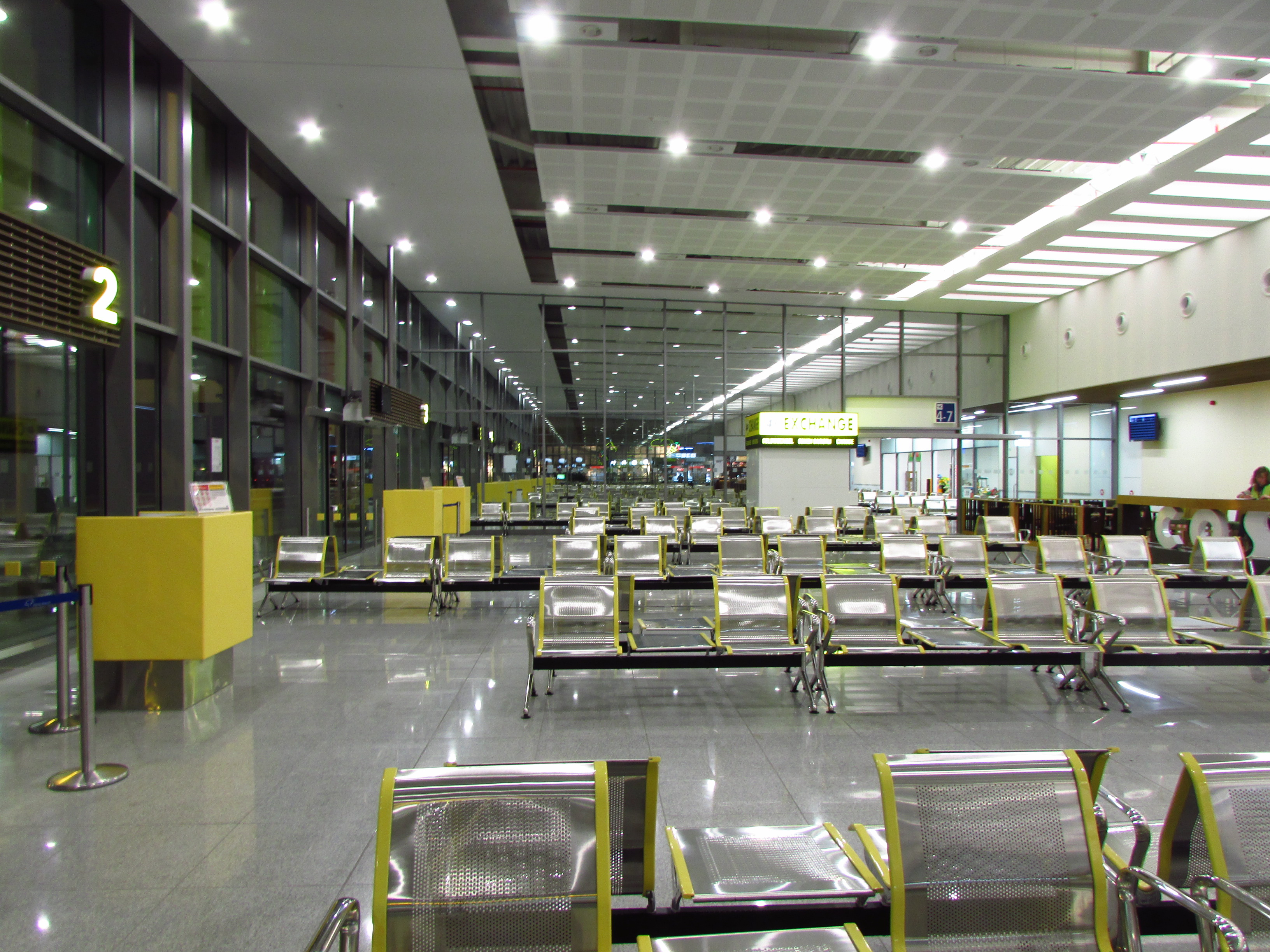 Terminal 2, Gates, Varna Airport, Bulgaria